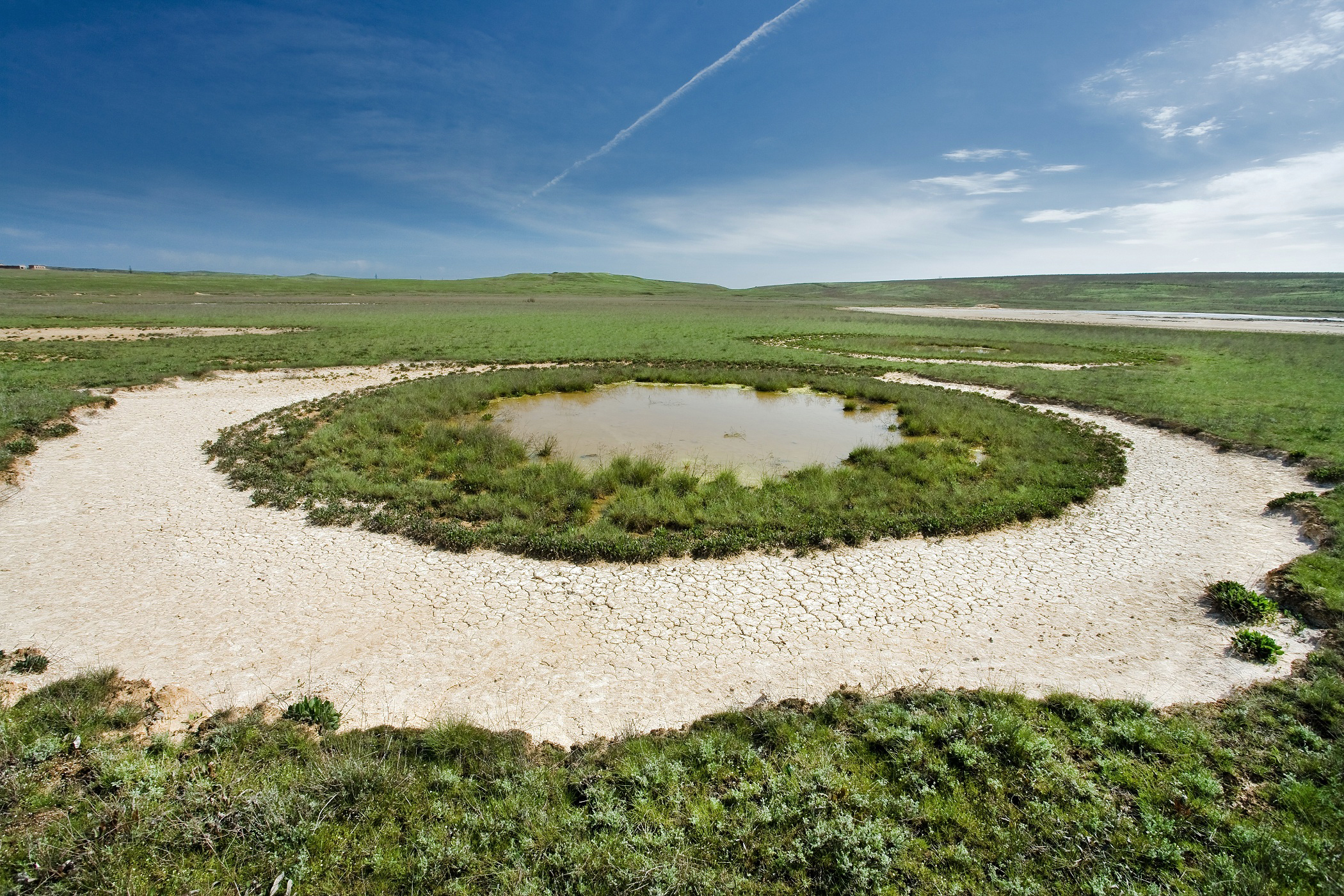 Obrucheva mud volcano (geological natural monument), located in Crimea, Lenine Raion, Bondarenkove